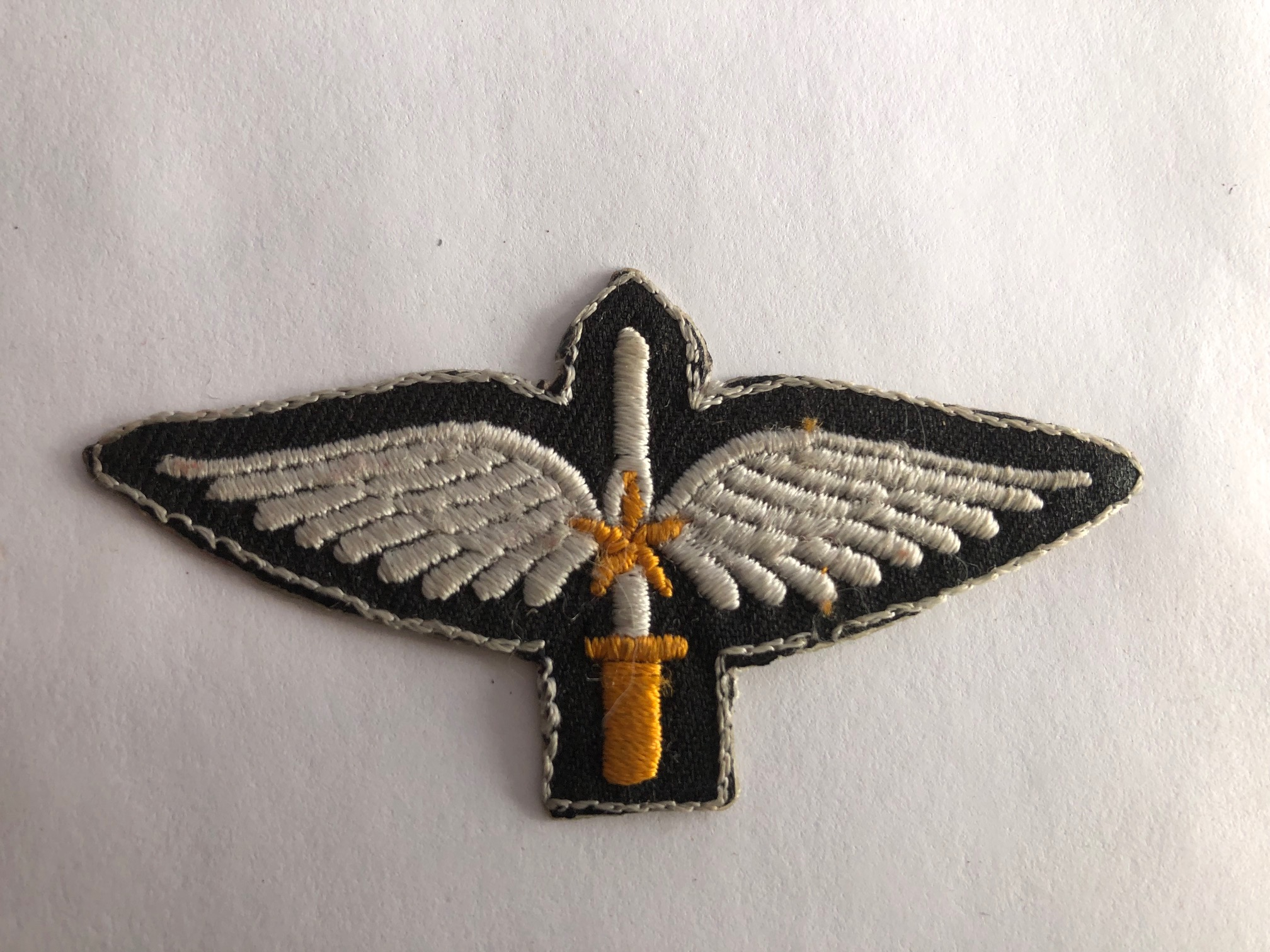 Years ago when I went to Pakistan (sometimes in 2003-04) when things and people were friendly and great. I went to visit the Air Force Museum in Karachi where I bought this military badge from the Air Force Museum. This is the Air Force's Special Forces team badge. I own the copyrights for this.